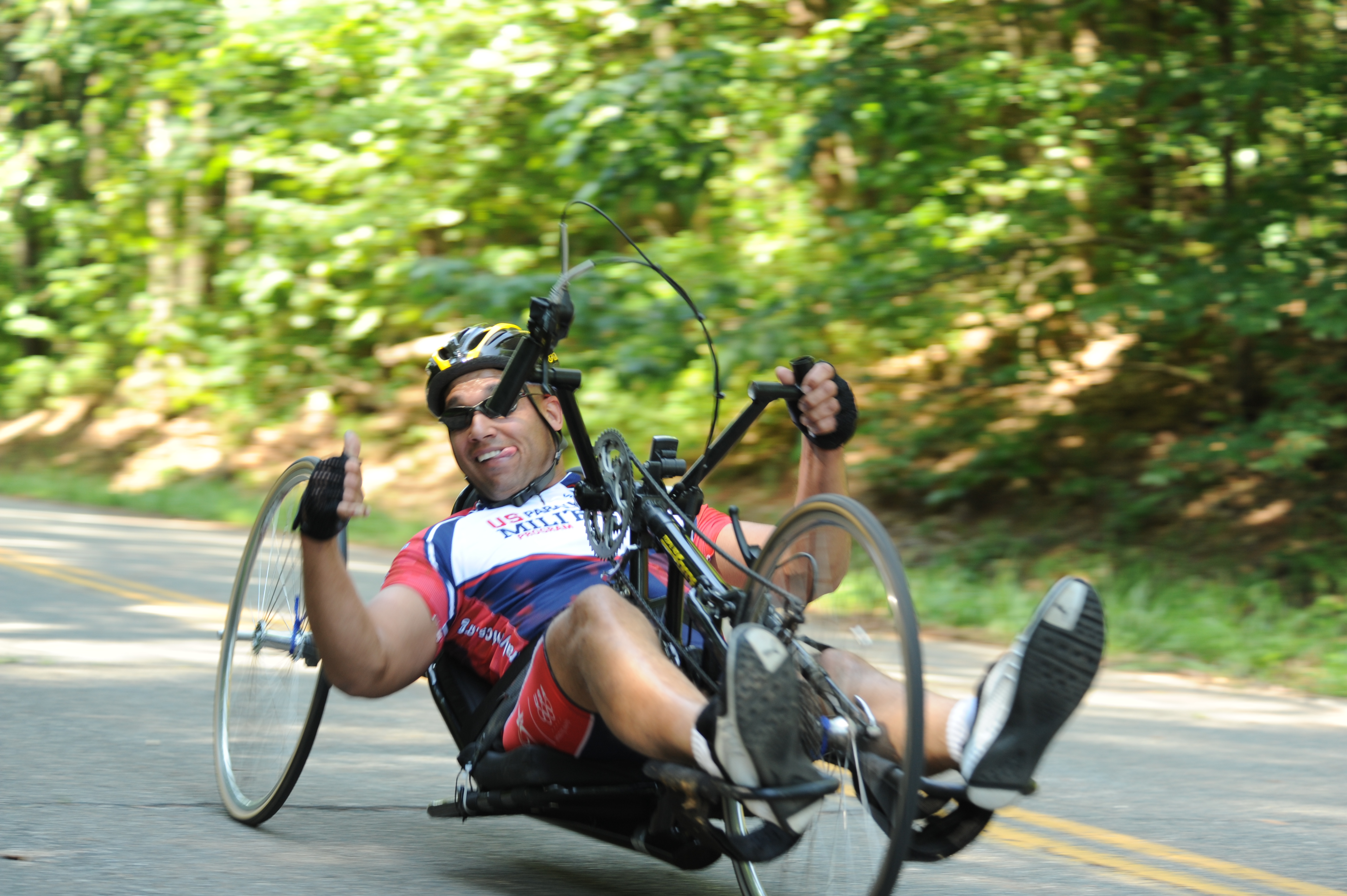 Anthony Radetic gives a thumbs up as he makes his way back to the finish placing a time of 43:51.64.